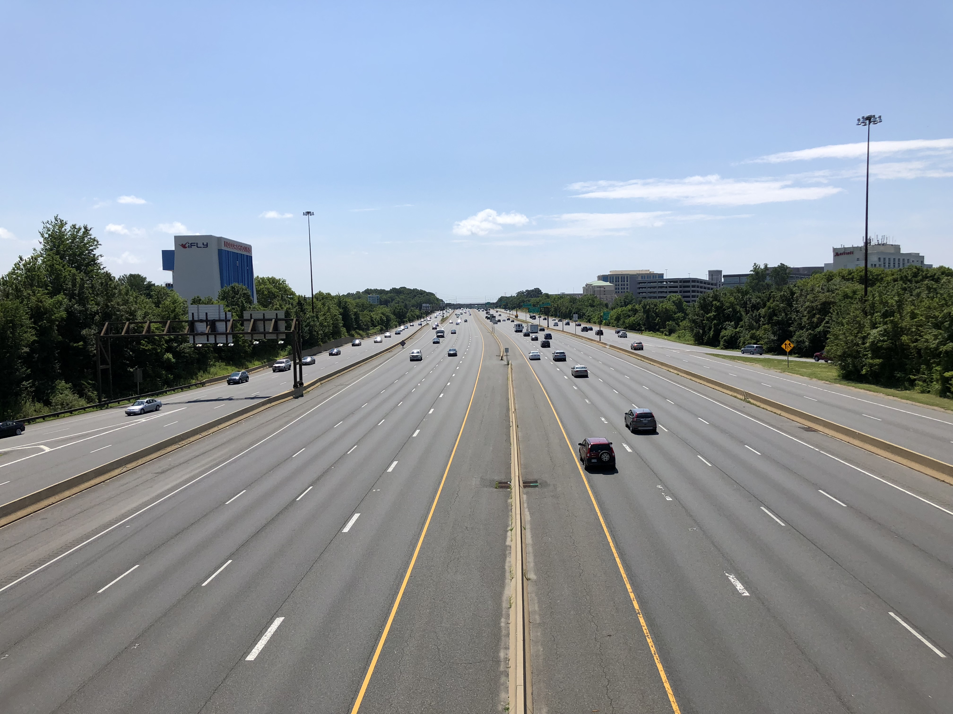 View south along Interstate 270 (Washington National Pike) from the overpass for the ramp from southbound Interstate 270 to eastbound Interstate 370 in Gaithersburg, Montgomery County, Maryland